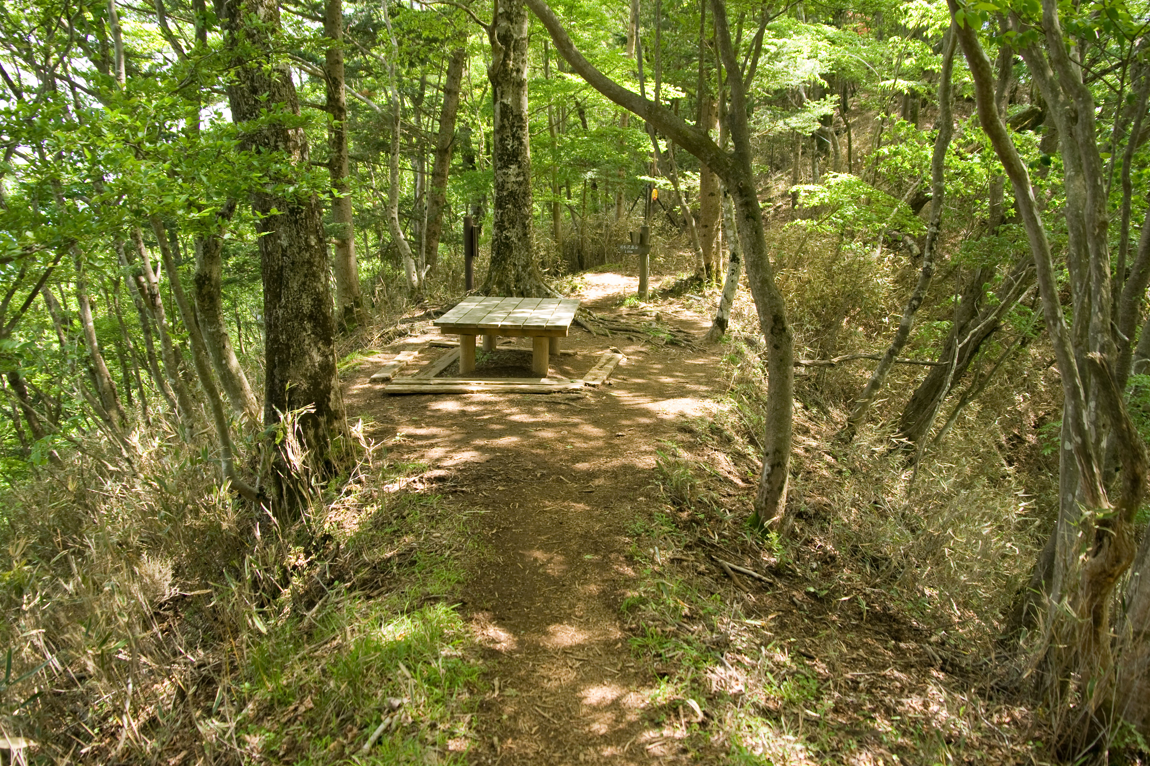 Shiraishi Pass, Tanzawa Mountains, Honshu, Japan.